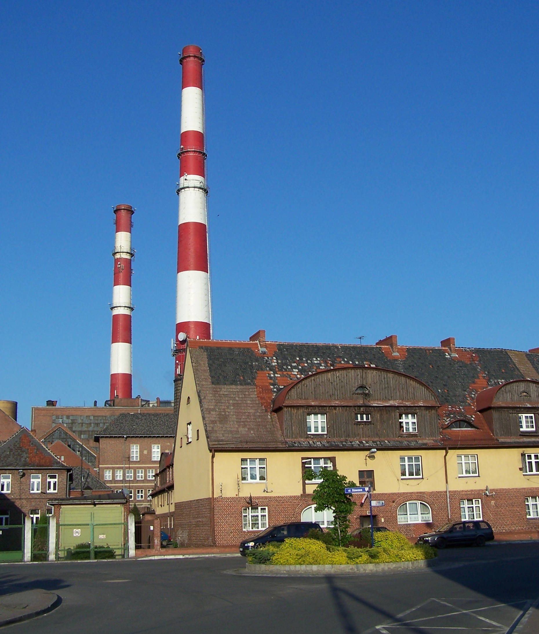 CHP power station "Czechnica" in Siechnice (PL)